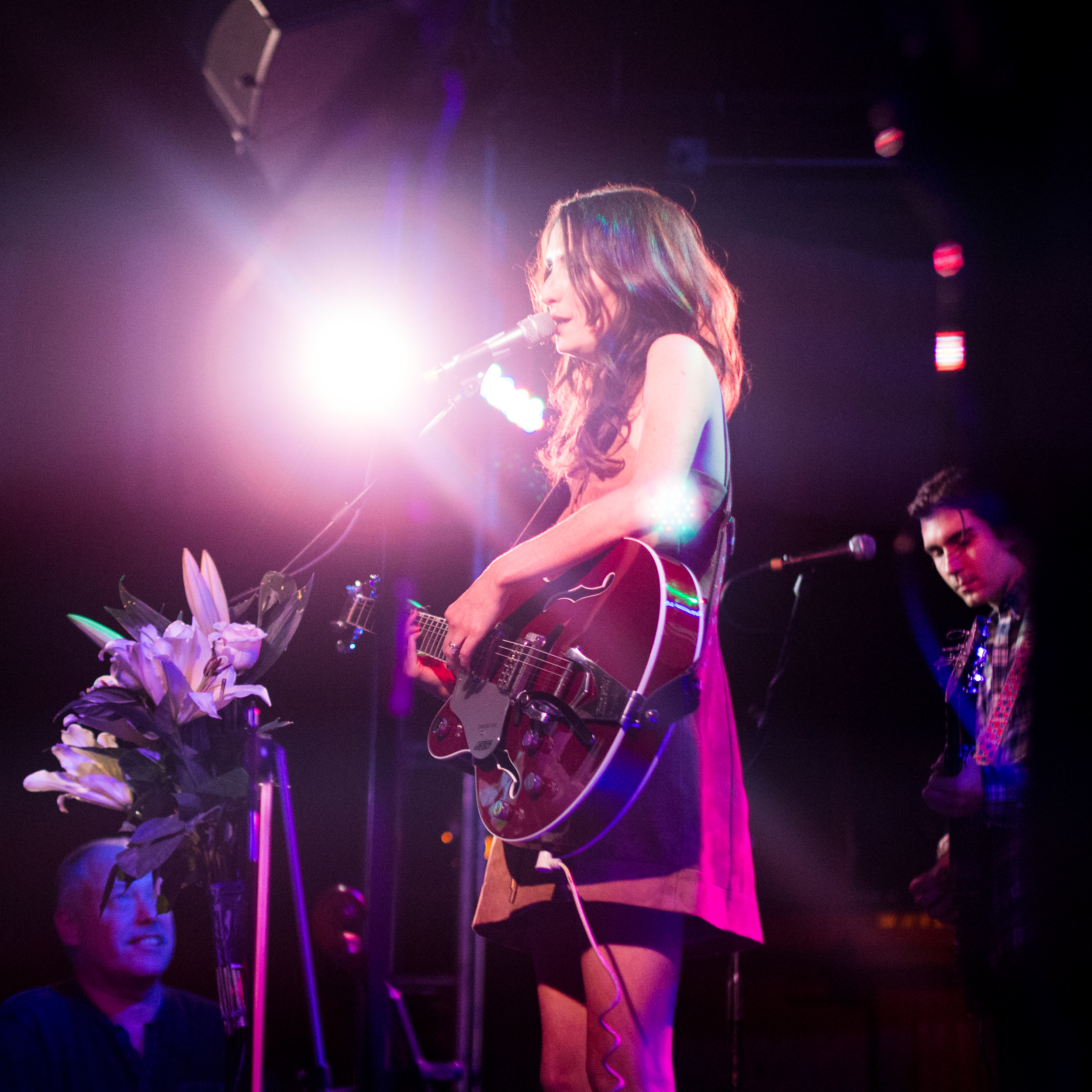 Maria Taylor live at The Troubadour 2016 on her album release show for 'In The Next Life.'